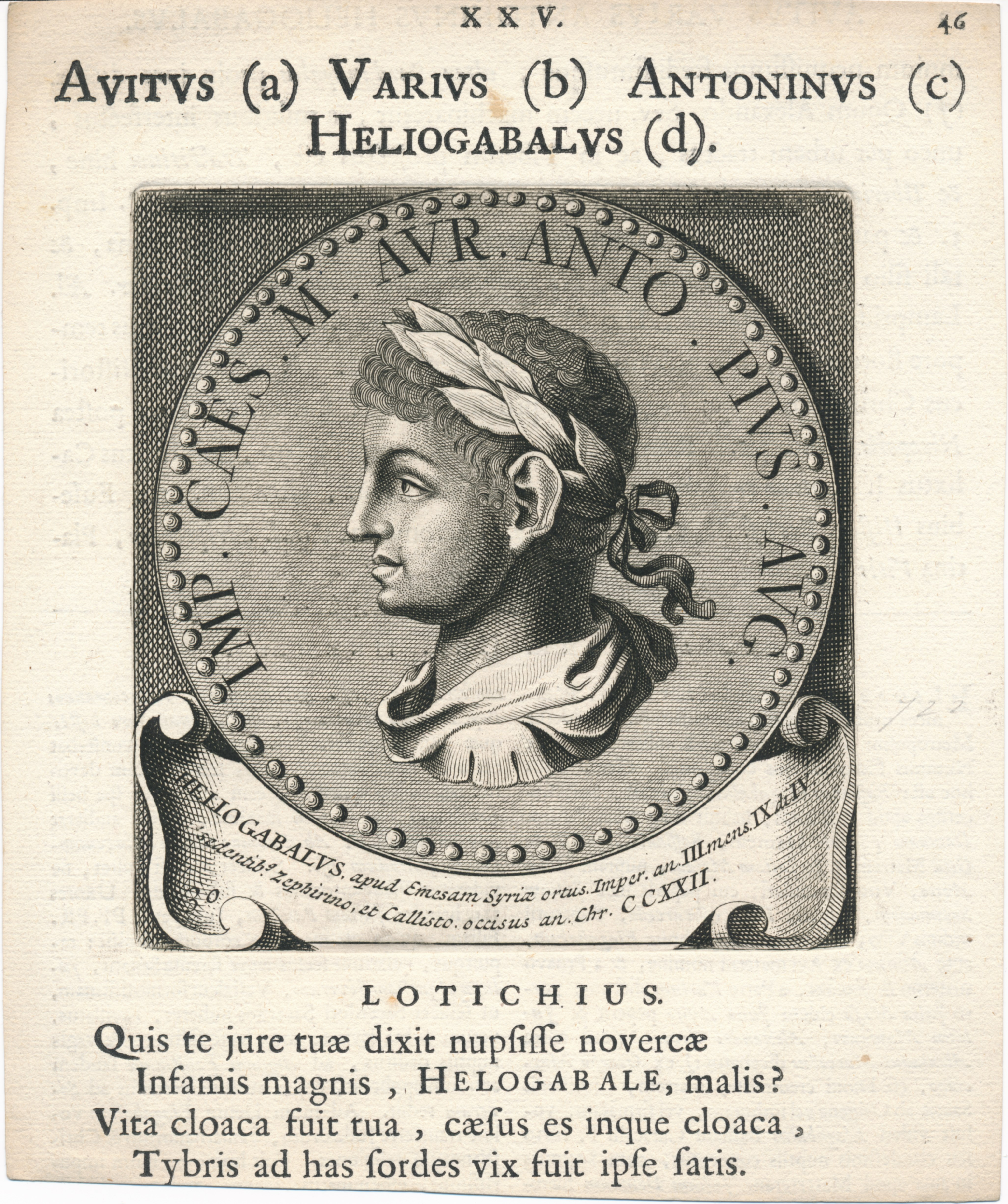 engraving in medallion of Marcus Aurelius Antoninus, commonly known as Elegabalus or Heliogabalus